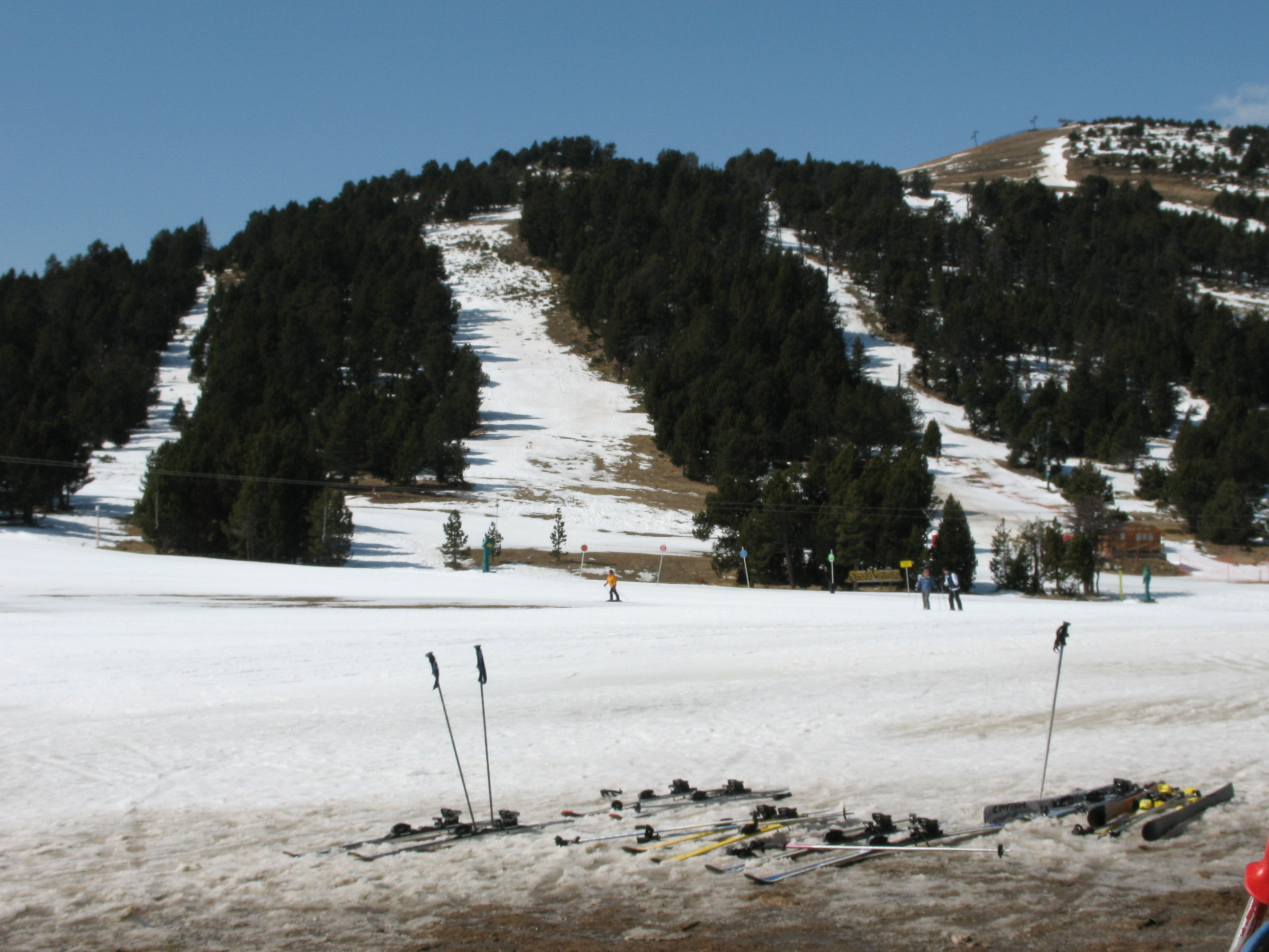 Ski Resort Els Angles, France.